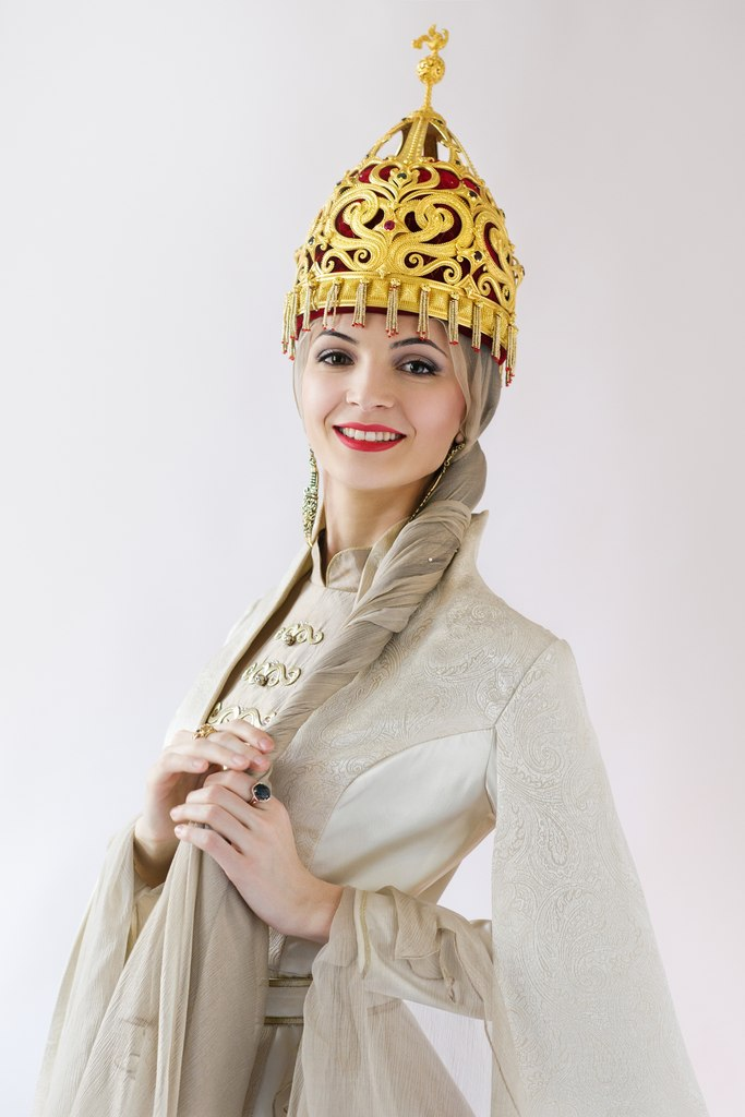 photosession of "Miss Circassian" - Bella Kukan.